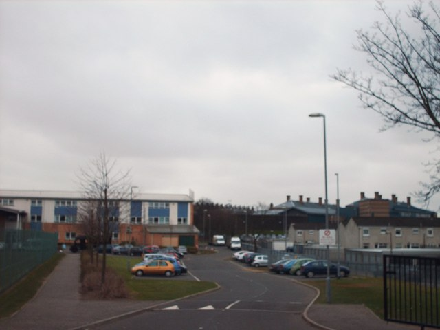 Smithycroft Secondary School The roof of Barlinnie Prison can be seen on the right.